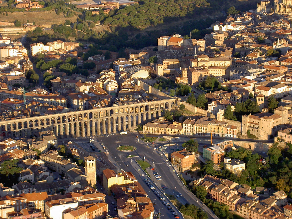 Aqueduct of Segovia (Spain), as seen from the air.